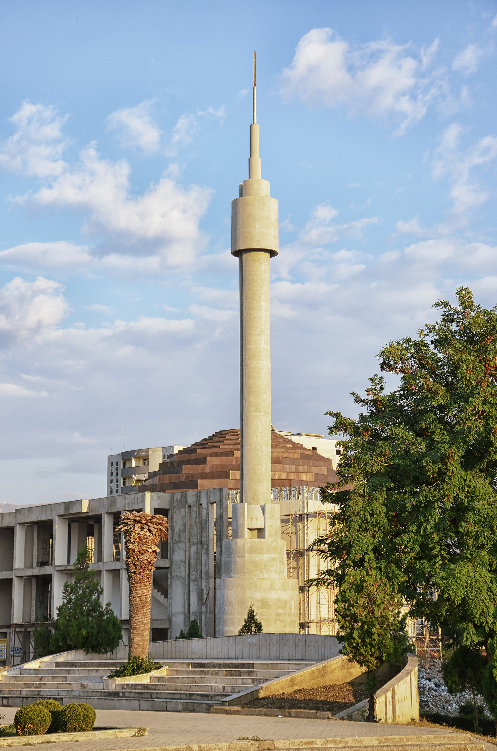 The mosque being built at the place of the Ballija Mosque (Xhamija e Ballijës) demolished by the communist authorities, Elbasan, Albania